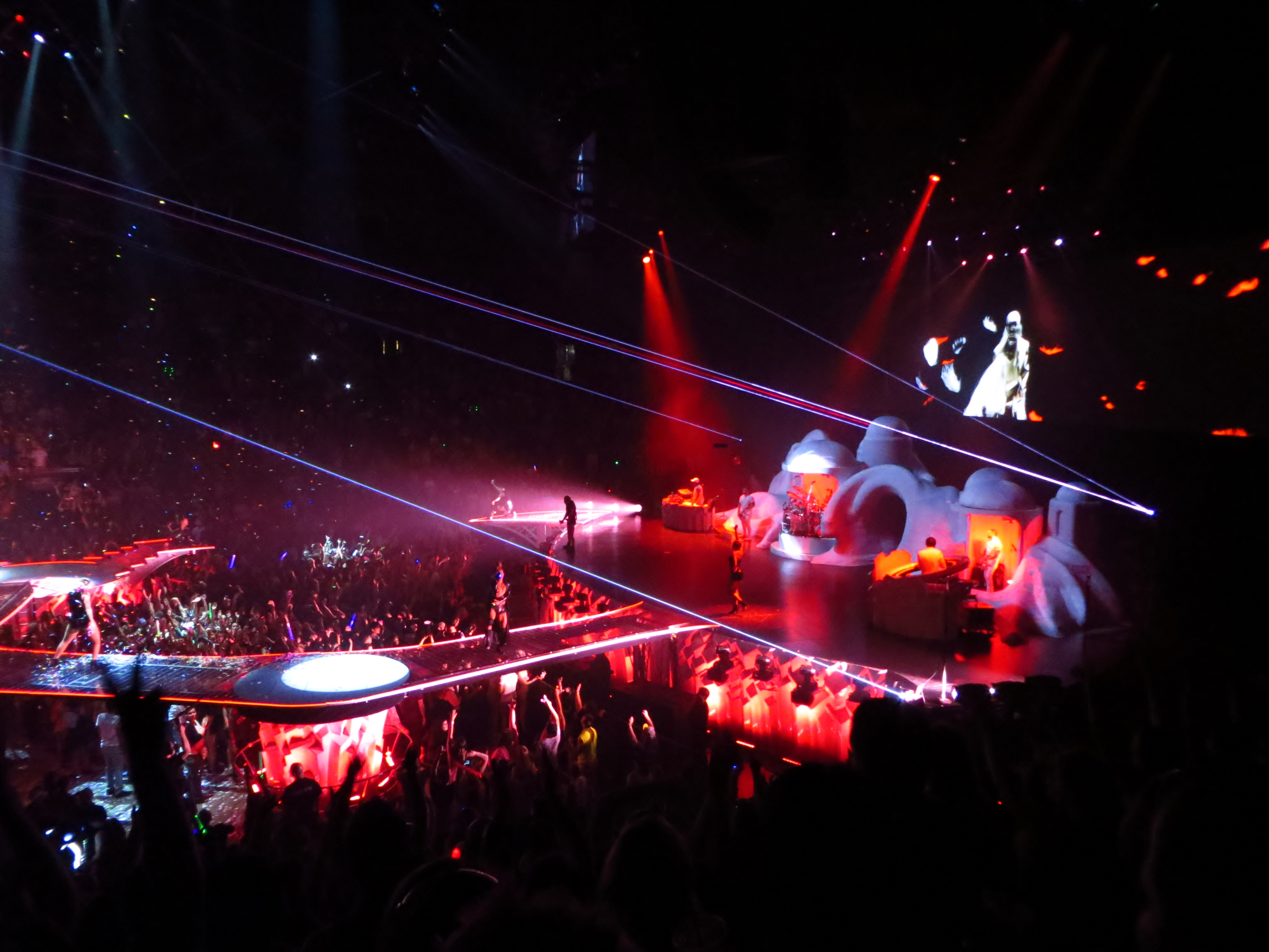 Lady Gaga, ARTPOP Ball Tour, Bell Center, Montréal, 2 July 2014 (85) Gaga performing on ArtRave: The Artpop Ball tour